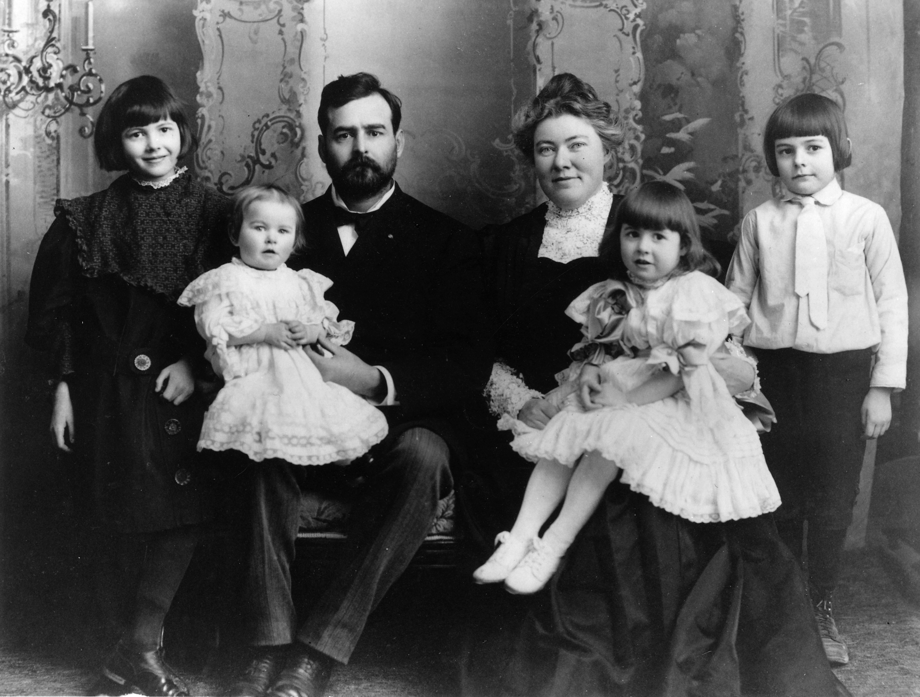 Early picture of Ernest Hemingway with his family. Included in the photograph are Marcelline, Sunny, C. E. Hemingway, Grace Hemingway, Ursula, and Ernest standing at the far right.